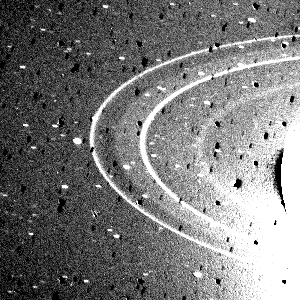 This 591-second exposures of the rings of Neptune were taken with the clear filter by the Voyager 2 wide-angle camera. The two main rings are clearly visible and appear complete over the region imaged. Also visible in this image is the inner faint ring and the faint band which extends smoothly from the ring roughly halfway between the two bright rings. Both of these newly discovered rings are broad and much fainter than the two narrow rings. The bright glare is due to overexposure of the crescent on Neptune. Numerous bright stars are evident in the background. Both bright rings have material throughout their entire orbit, and are therefore continuous.